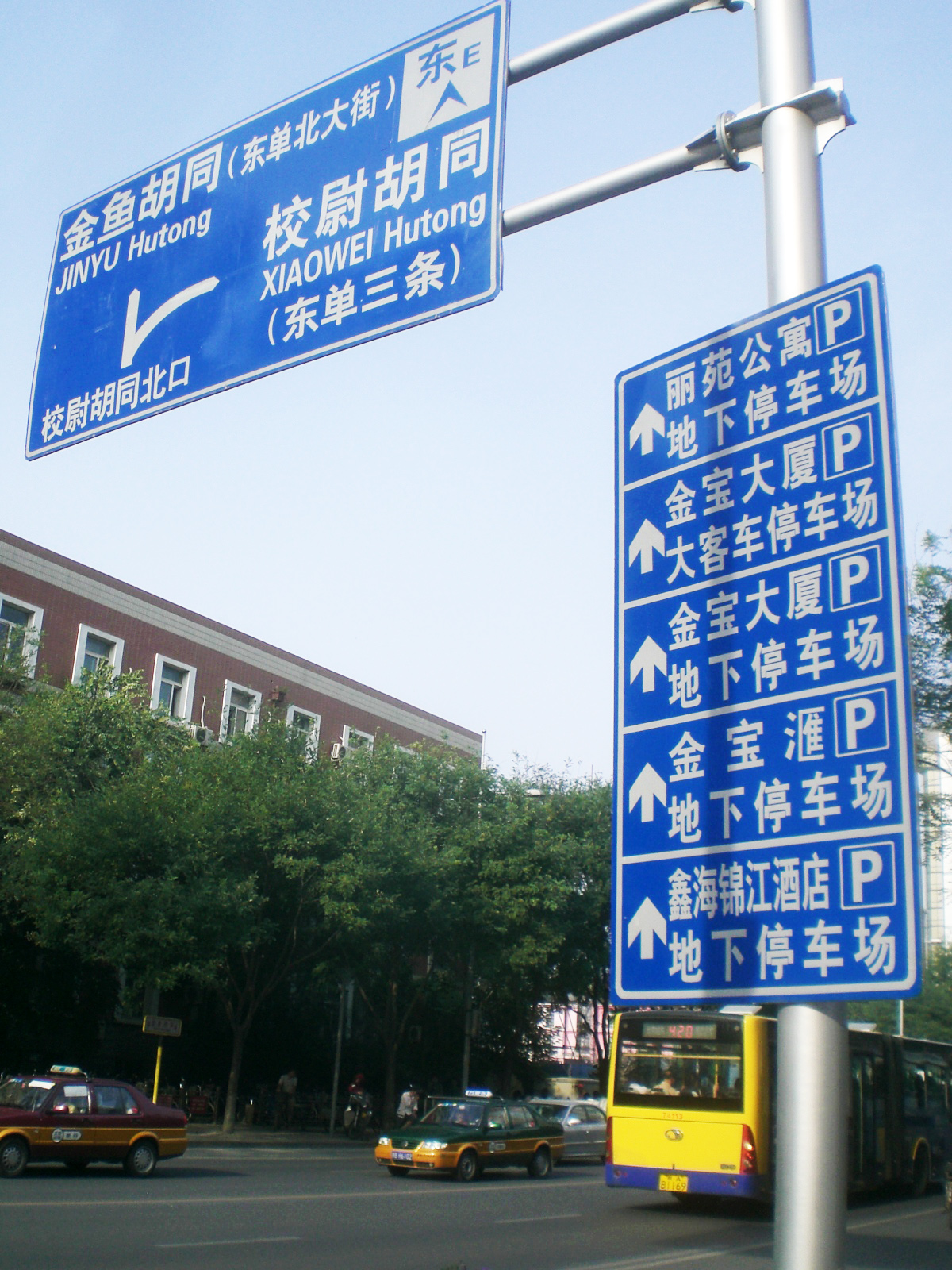 北京市東城區王府井